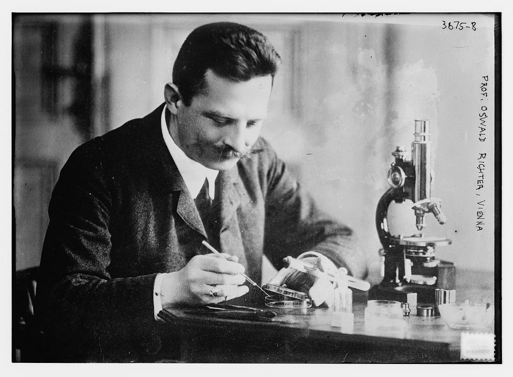 Oswald Richter circa 1915